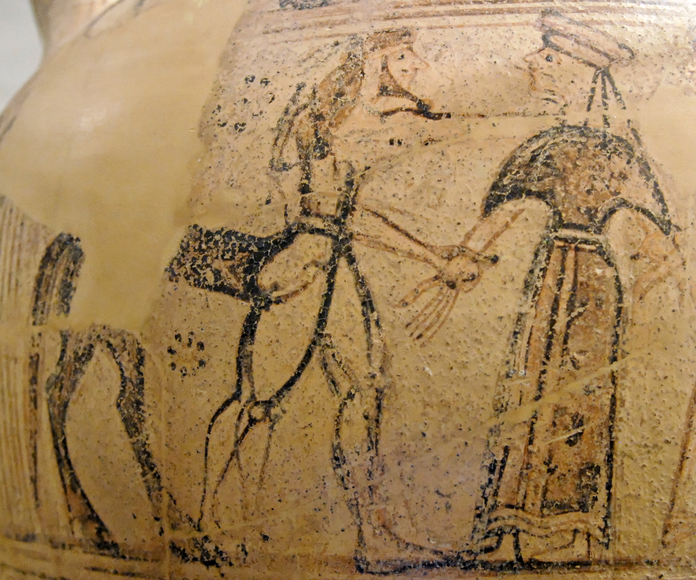 Centauromachy. Detail from an Orientalizing polychrome stamnos made in Megara Hyblaea, 660–650 BC. From Selinunte, Sicily.